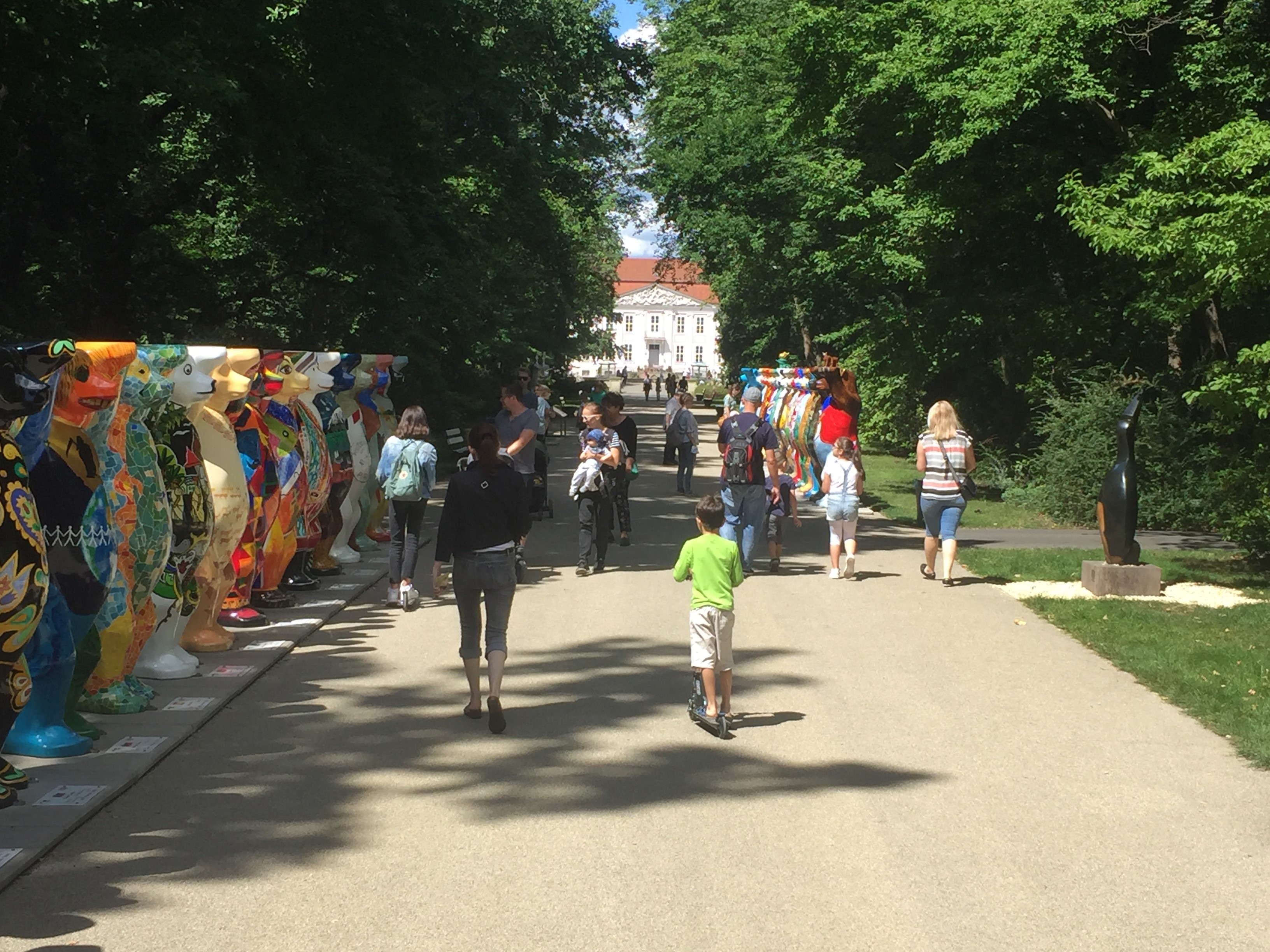 United Buddy Bears in the Tierpark Berlin